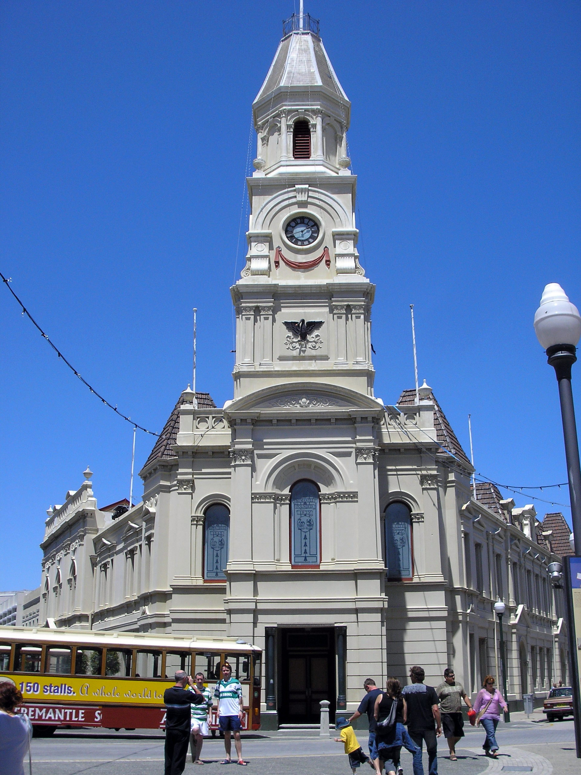 Town Hall, Fremantle, Western Australia.